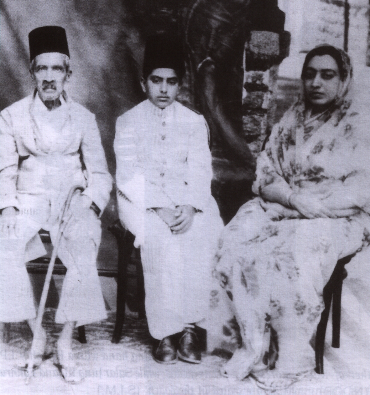 The last Nizam, Asaf Jah VII of the Indian princely state of Hyderabad, with Ghalib bin Awad al-Qu'aiti as a boy, who was to be the last ruler of the Qu'aiti Sultanate in the Hadramaut (southern Arabia) 1966-67, and his mother. Qu'aiti was within the British Aden Protectorate (1869 - 1963).